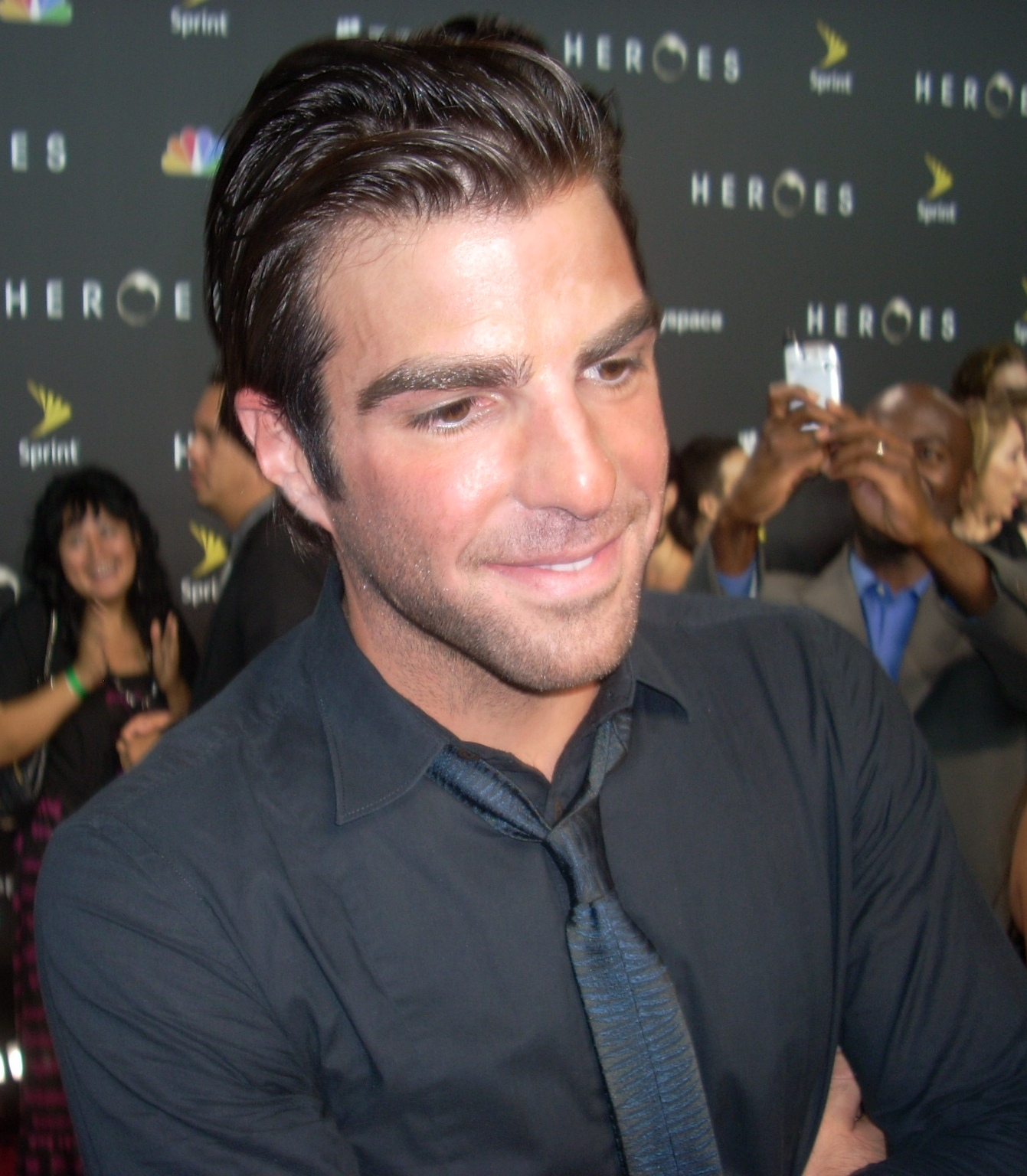 American actor Zachary Quinto at the Heroes Season Three Premiere Party, Edison L.A., Downtown Los Angeles - Sept. 7, 2008